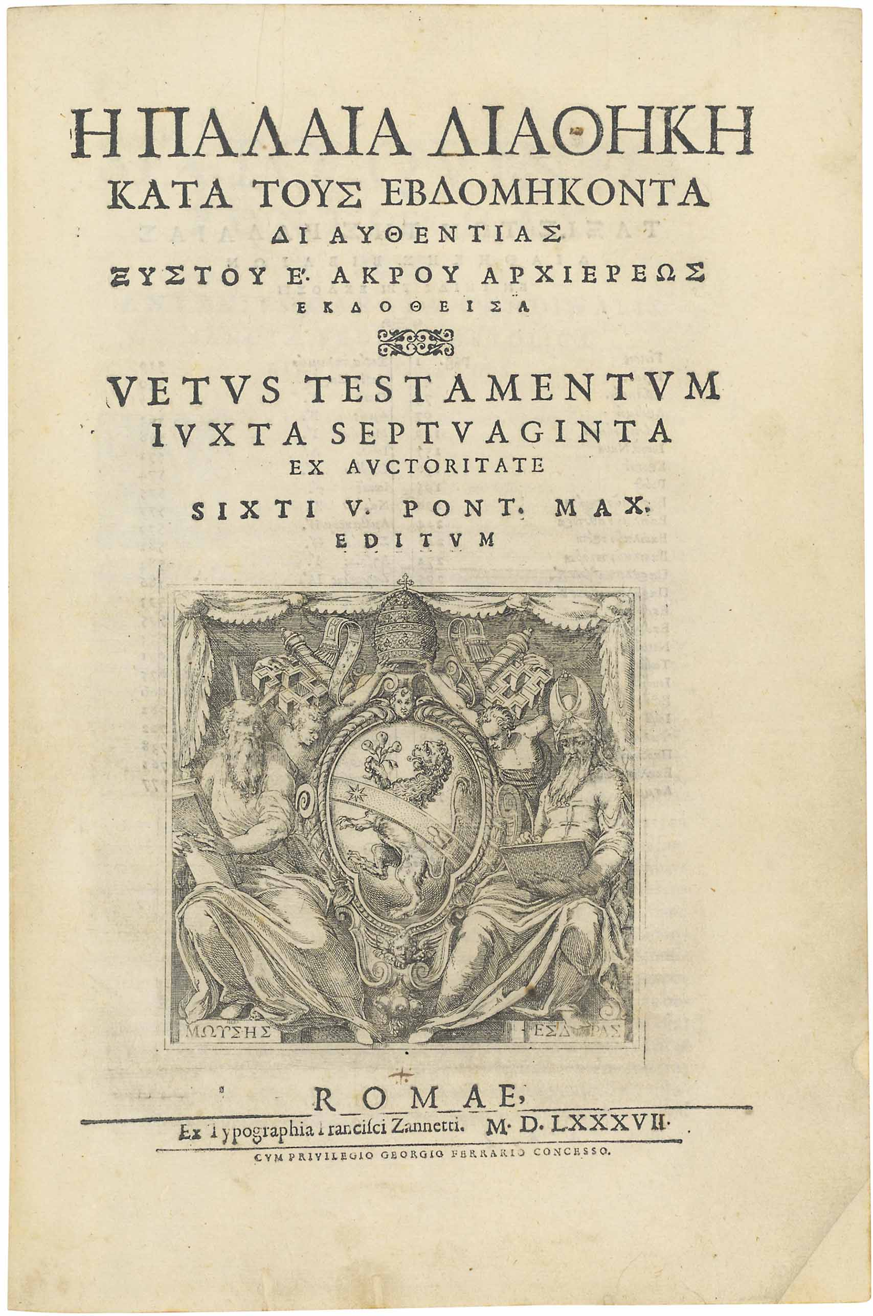 Title page of the Roman (Sixtine) Septuagint of 1587. The title reads: Η ΠΑΛΑΙΑ ΔΙΑΘΗΚΗ ΚΑΤΑ ΤΟΥΣ ΕΒΔΟΜΗΚΟΝΤΑ ΔΙ ΑΥΘΕΝΤΙΑΣ ΞΥΣΤΟΥ Ε’ ΑΚΡΟΥ ΑΡΧΙΕΡΕΩΣ ΕΚΔΟΘΕΙΣΑ. VETVS TESTAMENTVM IVXTA SEPTVAGINTA EX AVCTORITATE SIXTI V. PONT. MAX. EDITVM ROMAE EX TYPOGRAPHIA FRANCISCI ZANETTI. M.D.LXXXVII CVM PRIVILEGIO GEORGIO FERRARIO CONCESSO.. The original source says: "1586 [changed in ink, as always, to 1587]." Swete explains: "The second i has been added in many copies with the pen. The impression was worked off in 1586, but the work was not published until May 1587."[1] The illustration is the coat of arms of Sixtus V flanked by Moses and Esdras.